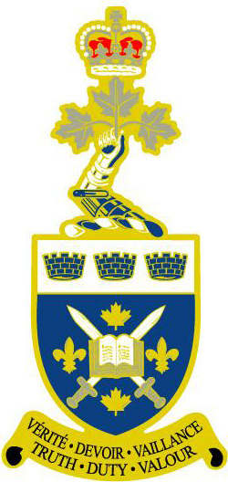 Royal Military College Saint Jean lapel pin